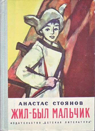 The cover of the Russian edition of a book